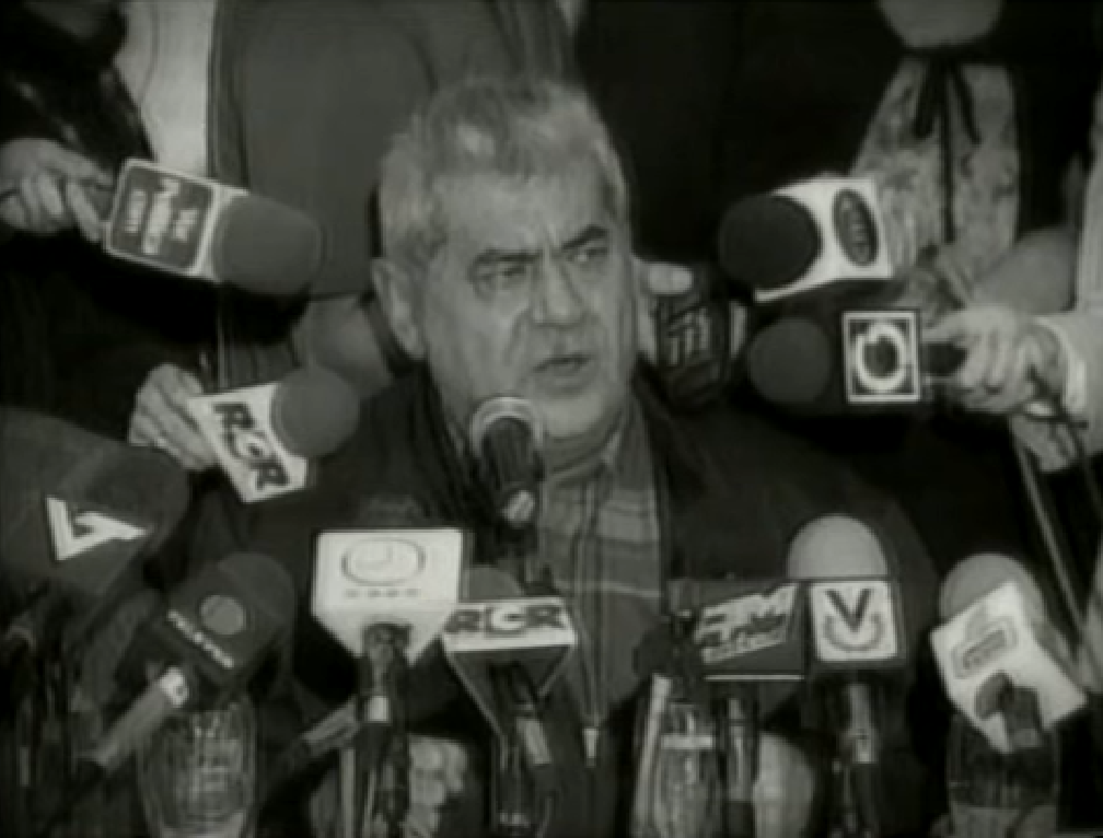 Carlos Ortega en una rueda de prensa